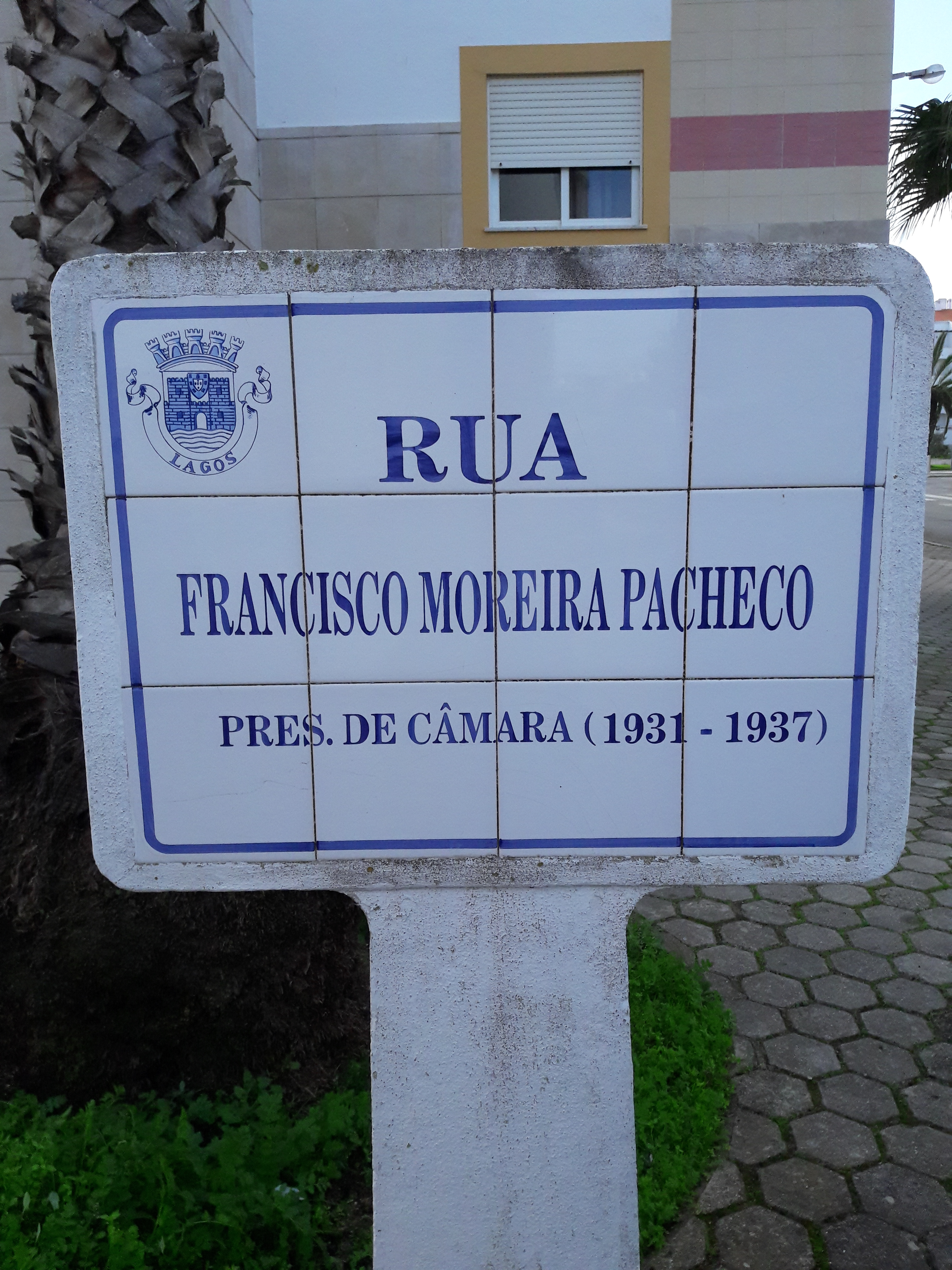 Street sign of Rua Francisco Moreira Pacheco, in the city of Lagos, in southern Portugal.